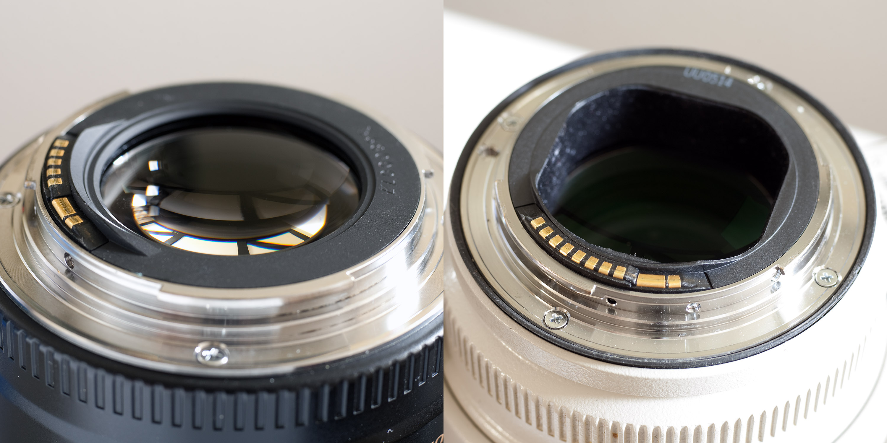 Two Canon EOS lens mounts, illustrating extender compatibility.